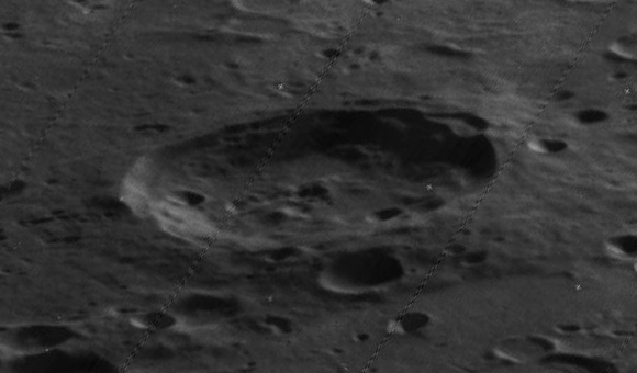 Oblique view of Stoney, on the far side of the moon, facing west.